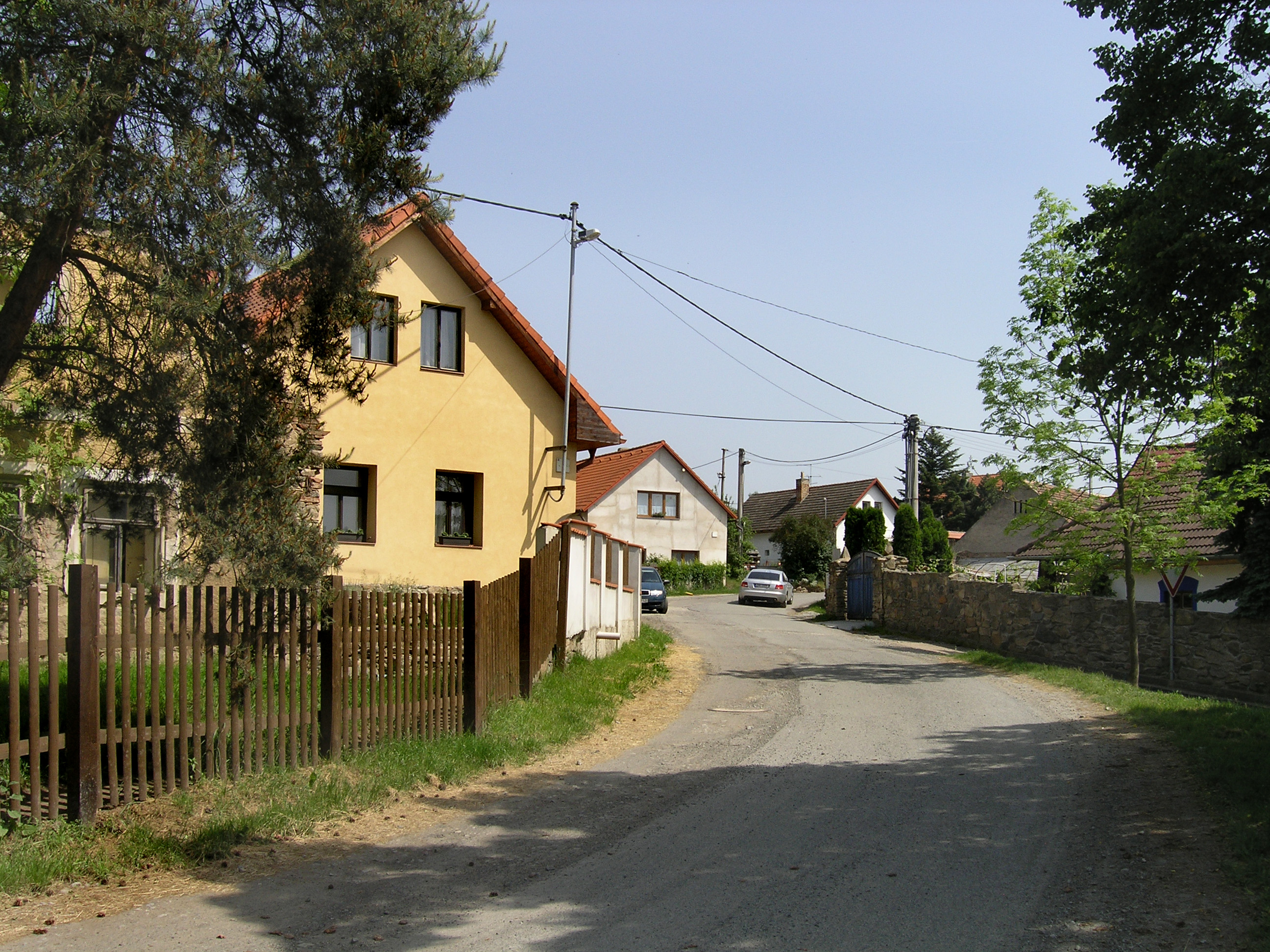 Common in Bukovany, Czech Republic